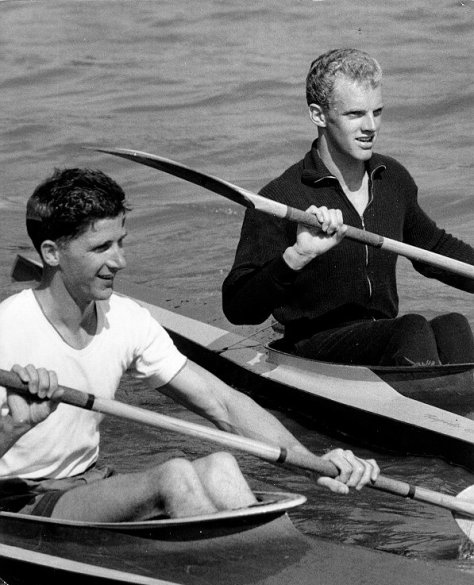 Arne Høyer (left) and Erik Hansen training for the 1960 Olympics